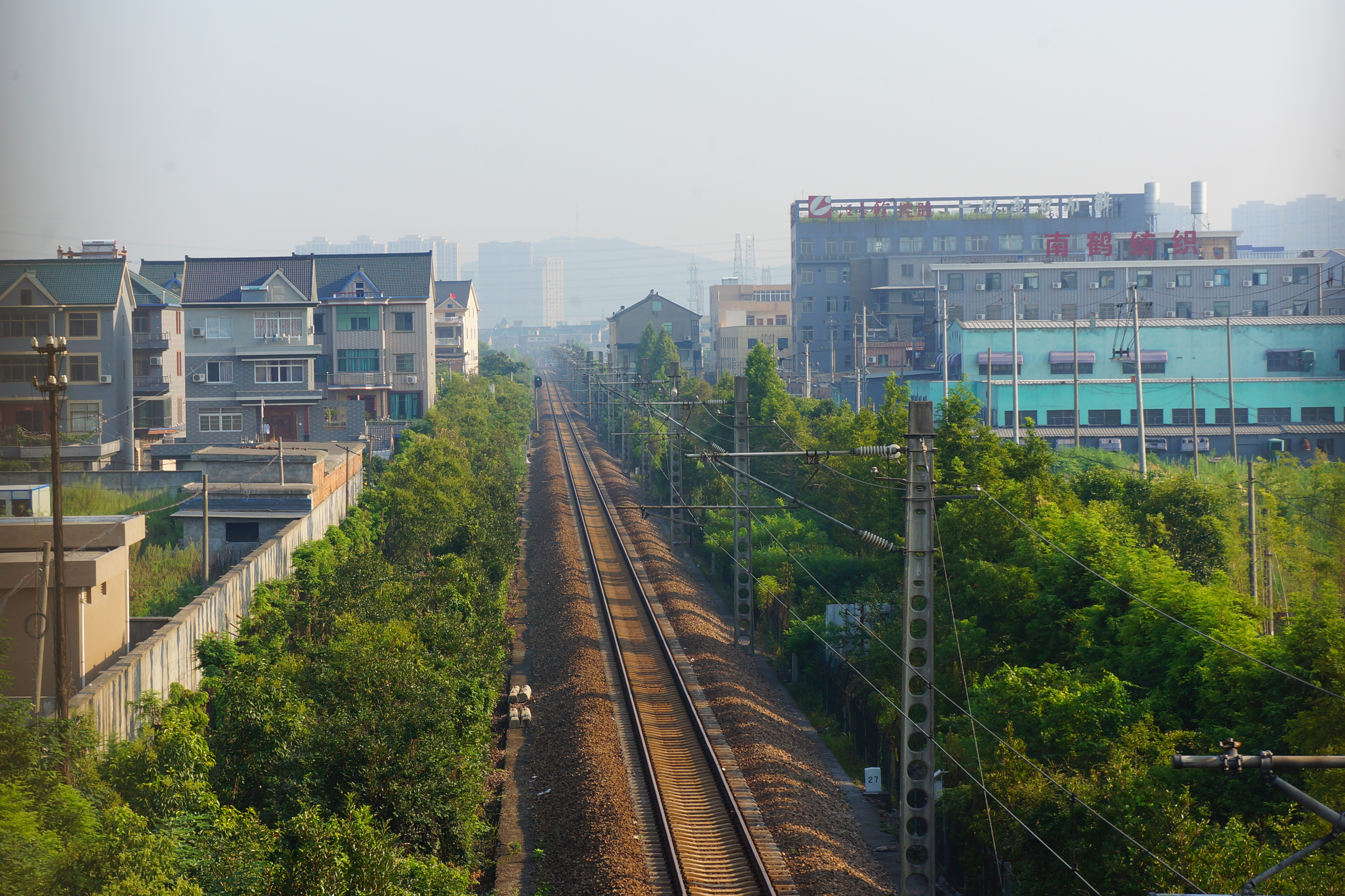 201607 Hangzhou Subline near Bailutang (蜀山)